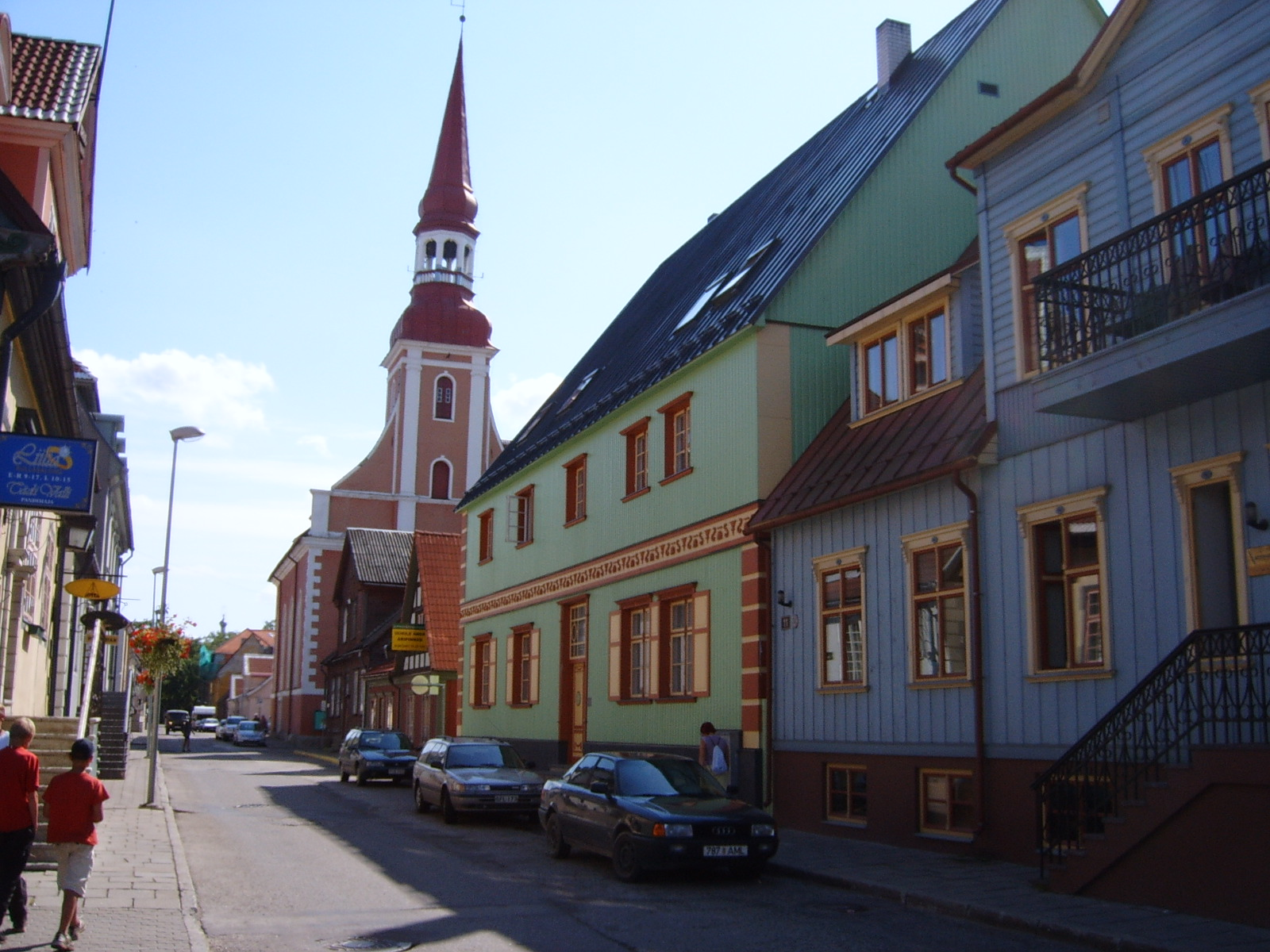 Pärnu, Estonia, centrum